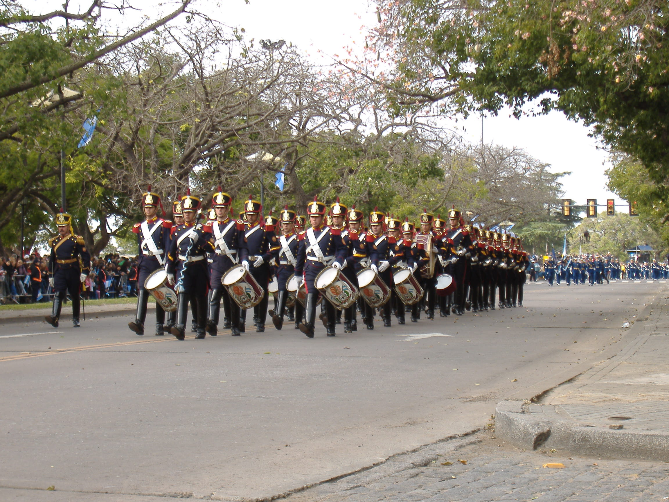 Members of the traditional Granaderos Regiment during the civic parade of Flag Day (20 June) 2006, in Rosario, Argentina